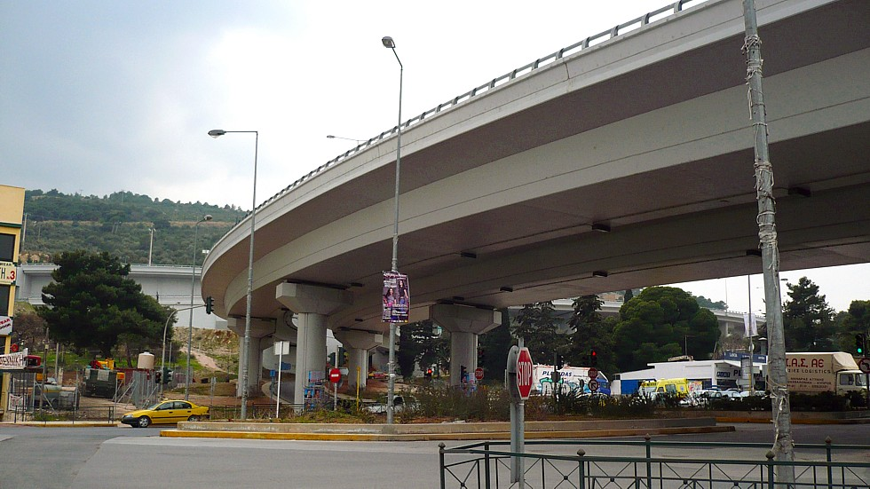 The above picture depicts the eastern gate to the Athens basin.